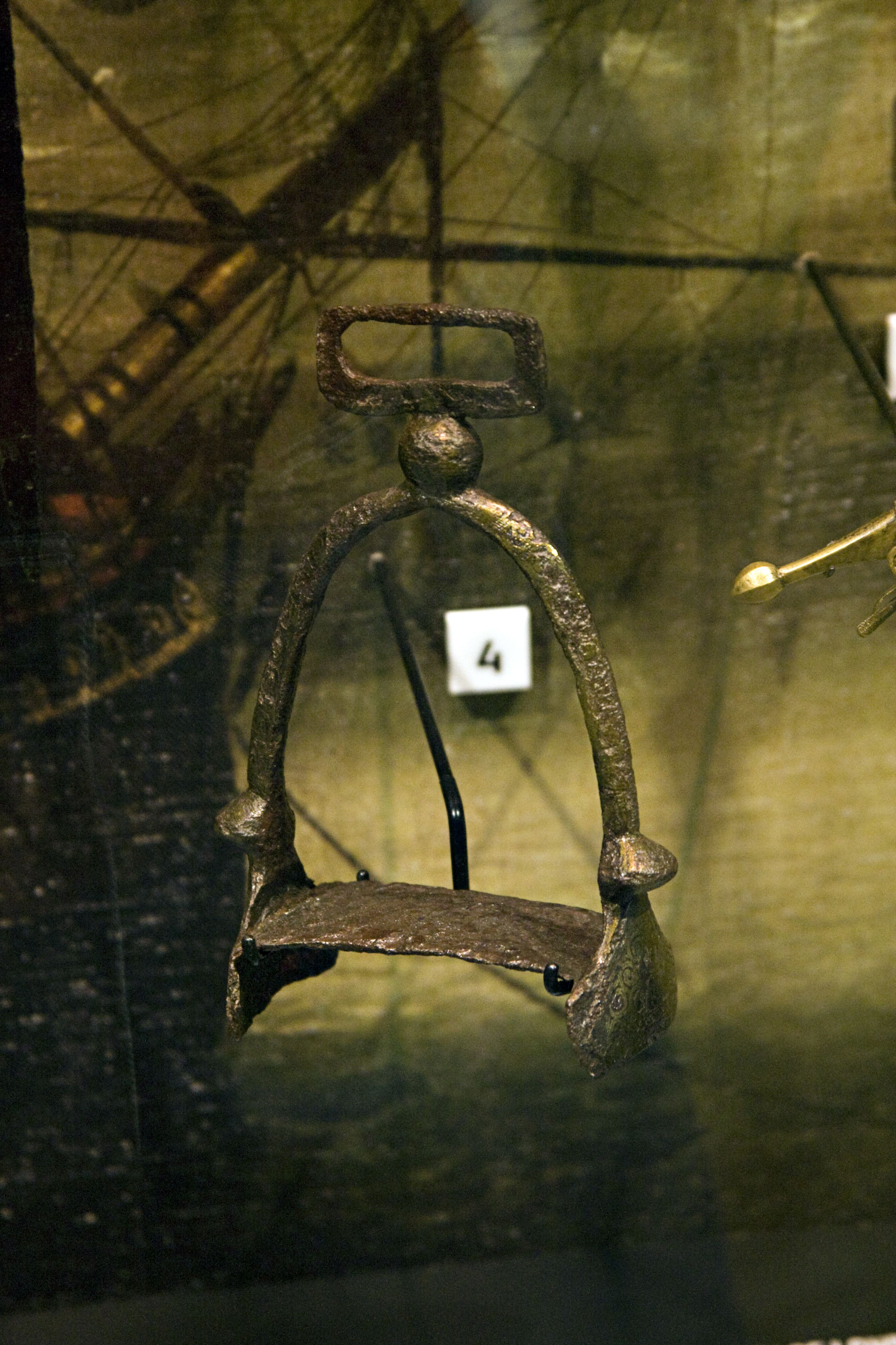 Tenth century stirrup in the royal armories in the Tower of London. The tag on the exhibit states: "Stirrup. Over a thousand years old and of a type the Vikings would have recognized, this iron stirrup has inlaid brass scroll decoration on its outer surfaces. European, 10th century. Said to have been found in the River Thames. vI.128."